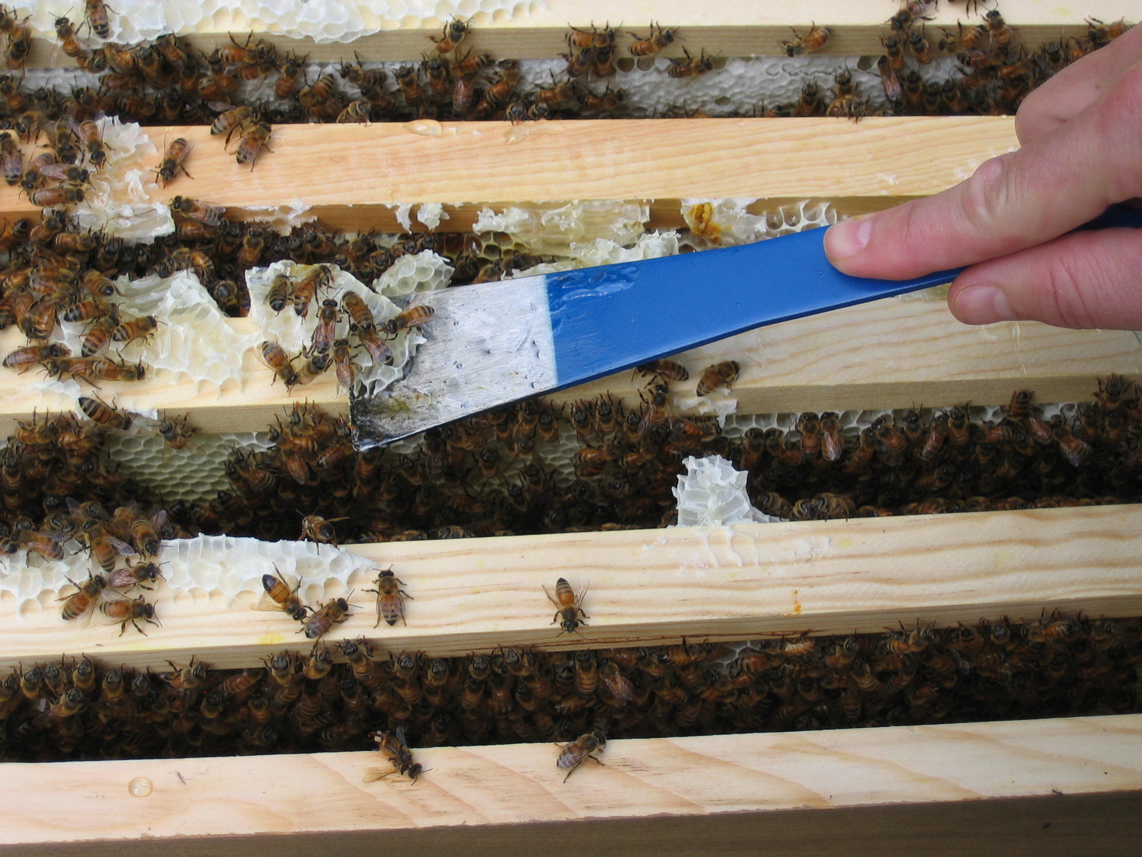 Using a hive tool for cleaning the top frames of the hive